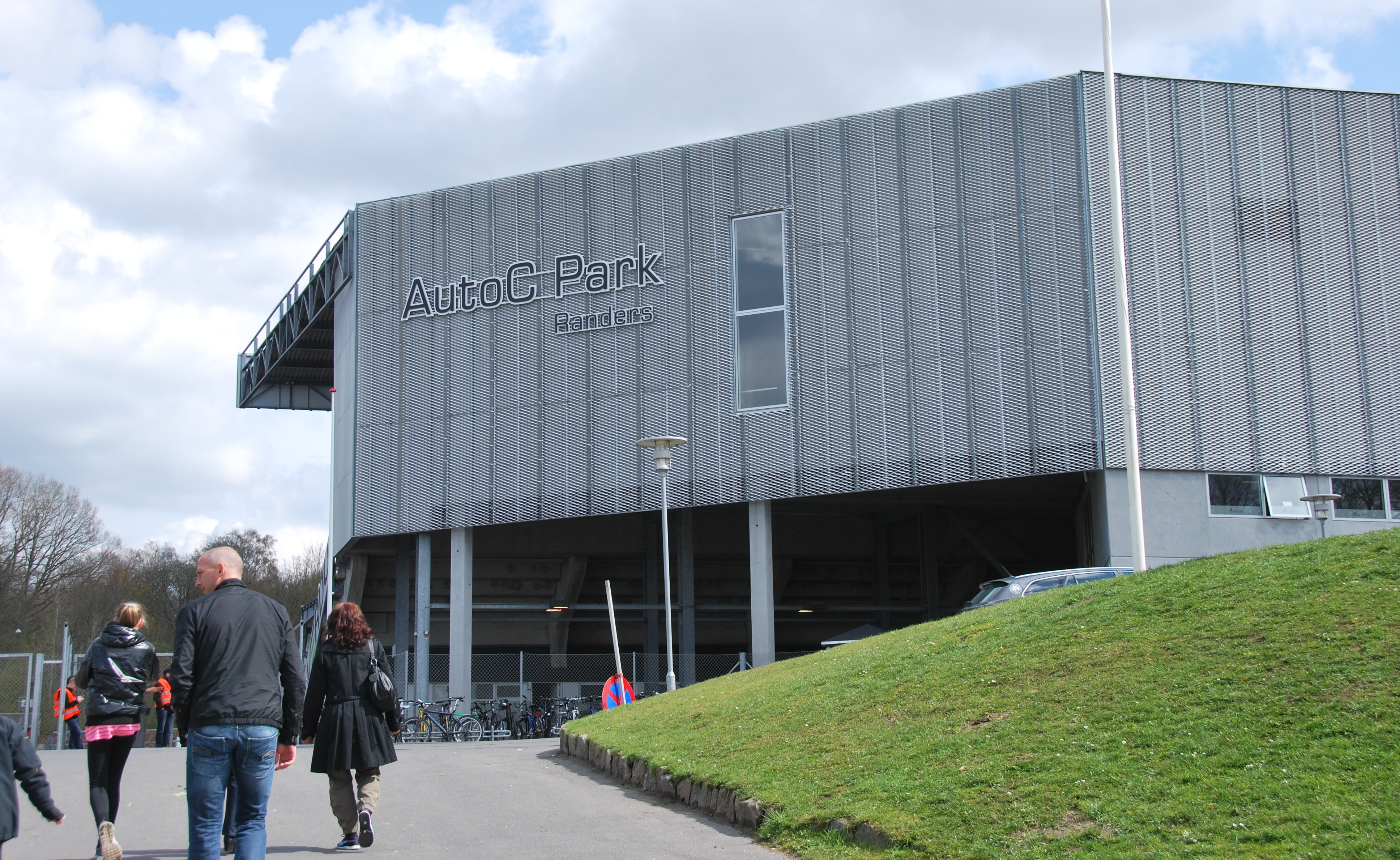 Randers Stadion.